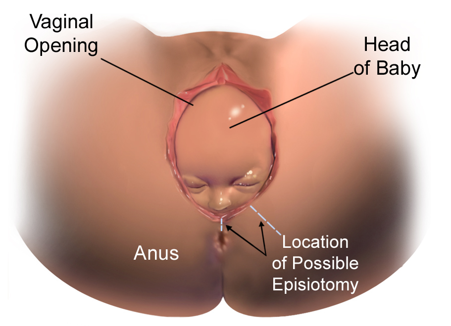 Crowning and Episiotomy. See a full animation of this medical topic.